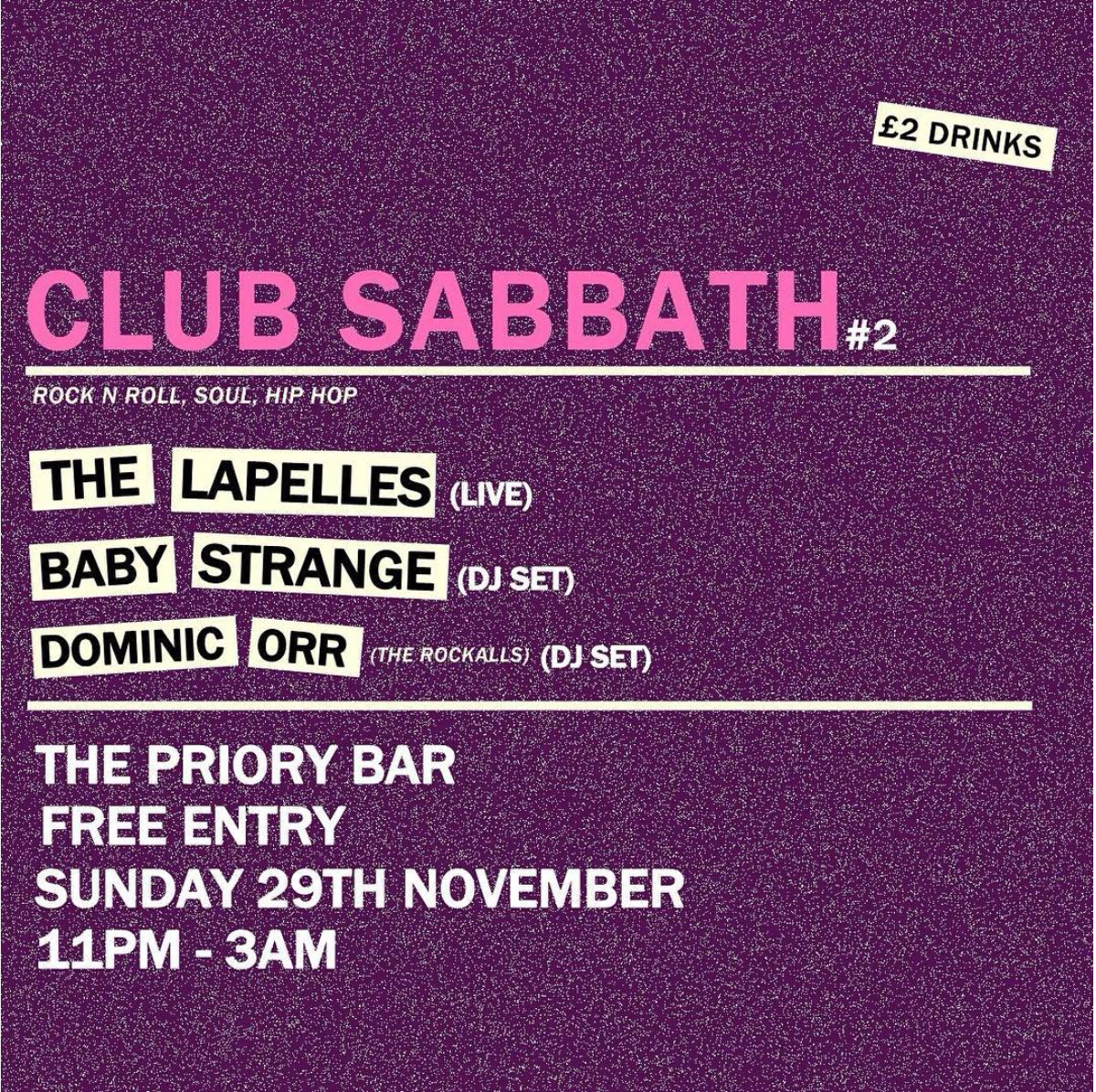 The Priority Bar